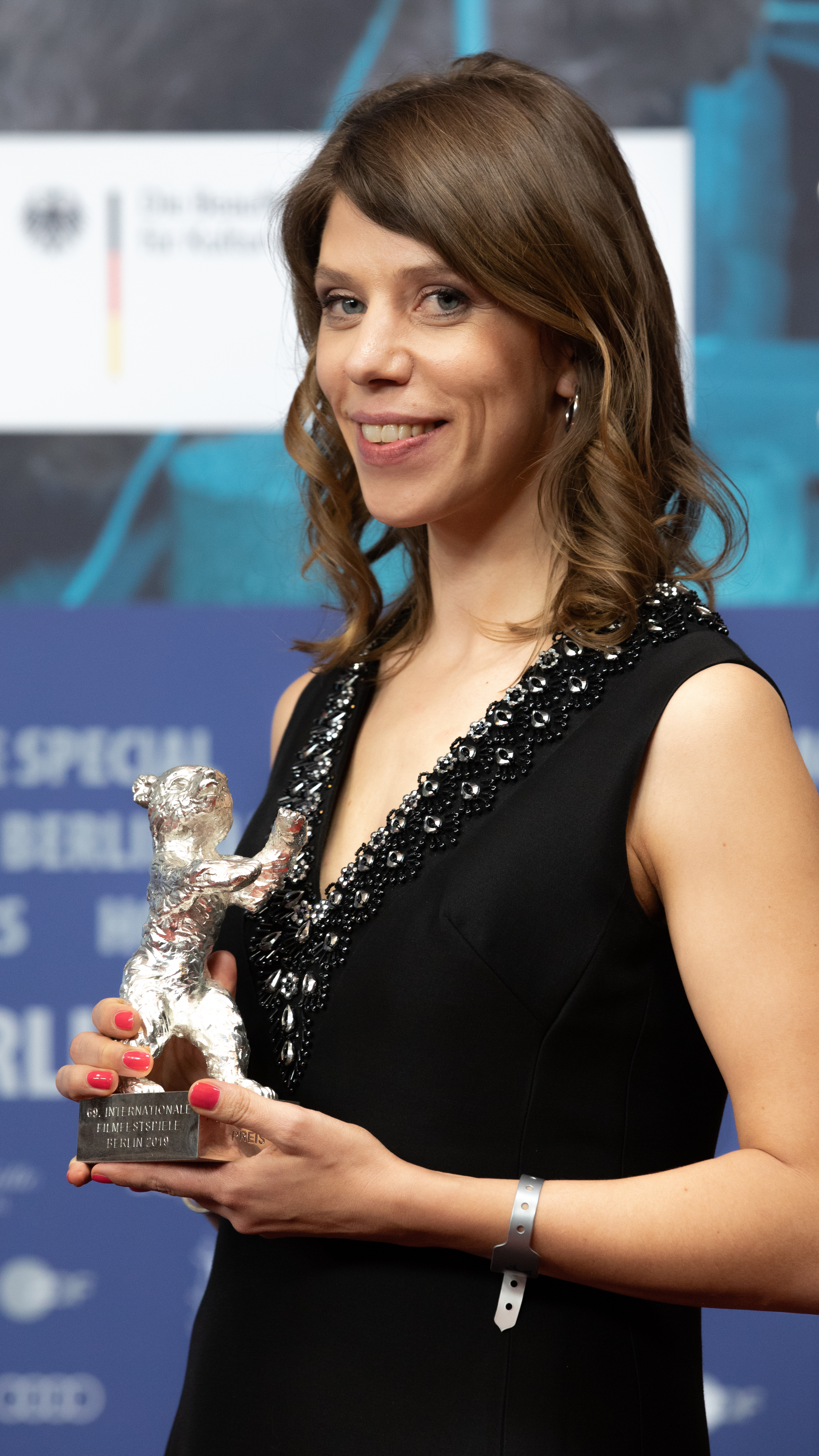 Director Nora Fingscheidt with the silver bear for the film "Systemsprenger" at Berlinale 2019